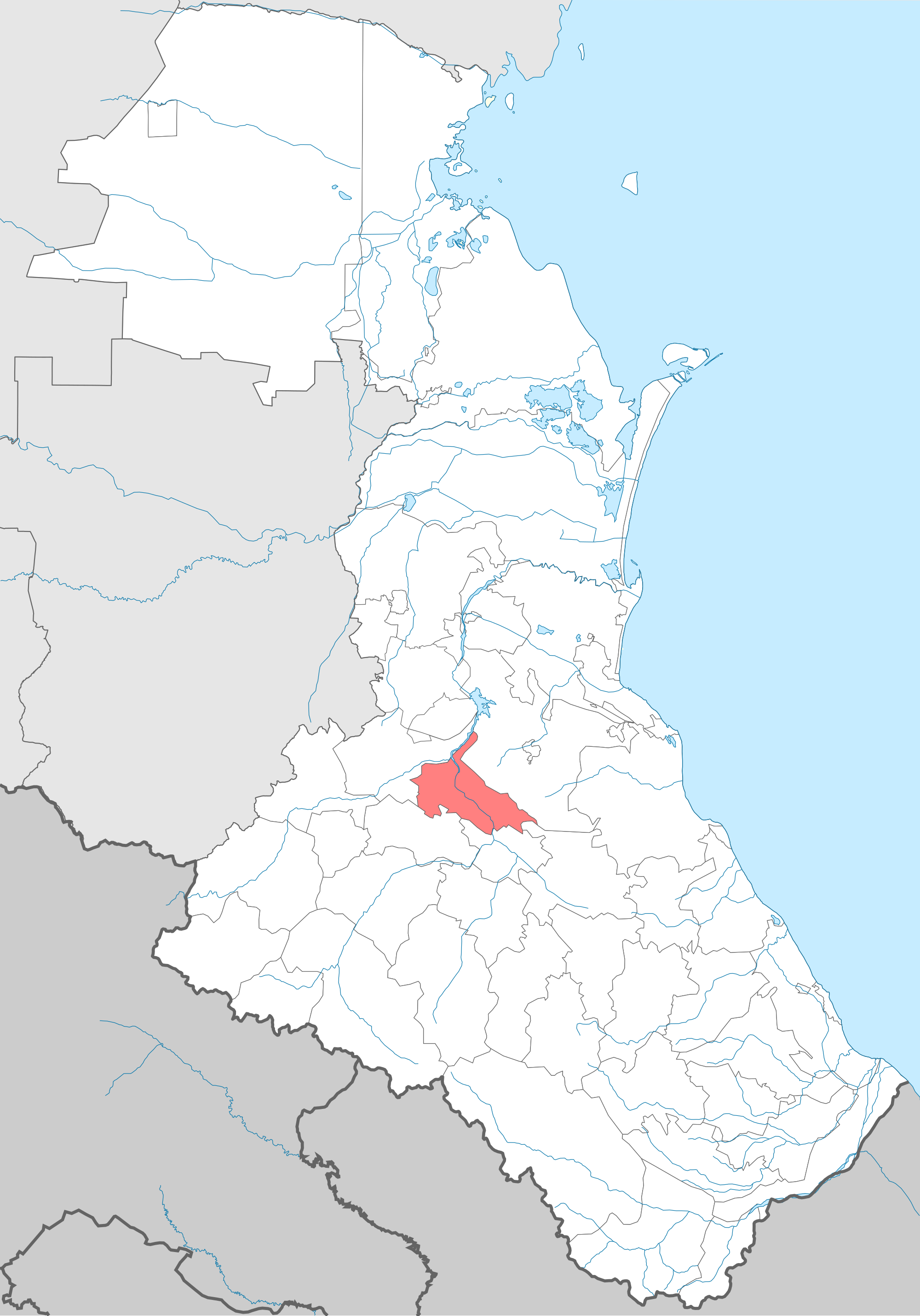 Untsukulsky district locator map